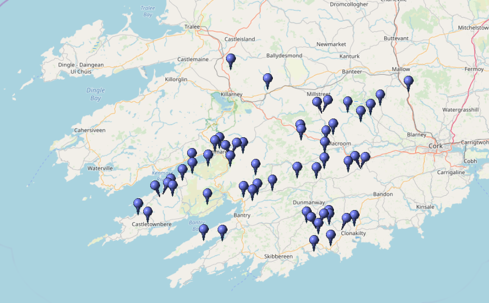 Locations of Axial stone circles in County Cork and County Kerry in Ireland as mapped by OpenStreetMap from template:GeoGroup and using data (but not creative content) extracted from Historical Environment Viewer. Archaeological Survey of Ireland. View of coordinates in List of axial stone circles at this version on 29 February 2020. One site in County Clare, Curraghodea 52°51′58″N 9°17′42″W / 52.866°N 9.295°W has not been included (off map). This map may be incomplete, and may contain errors. Don't rely solely on it for navigation.